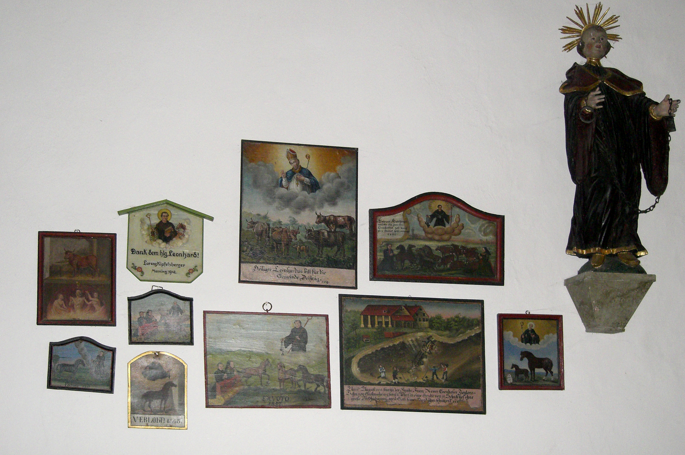 Votive paintings (ex-voto) beside the St. Leonhard figurine in the Saint Leonard church in Tholbath near Theißing.